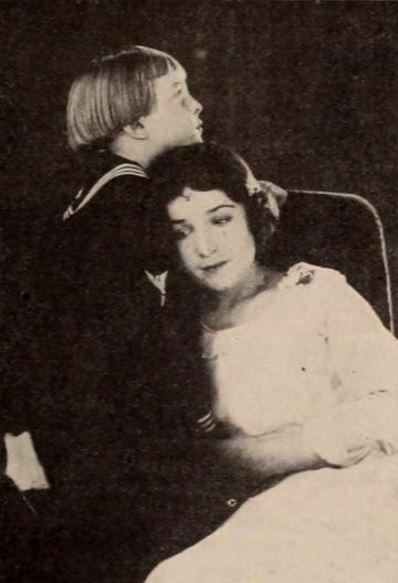 Still from the American film The Family Honor (1920) with Ben Alexander and Florence Vidor, on page 77 of the March 6, 1920 Exhibitors Herald.